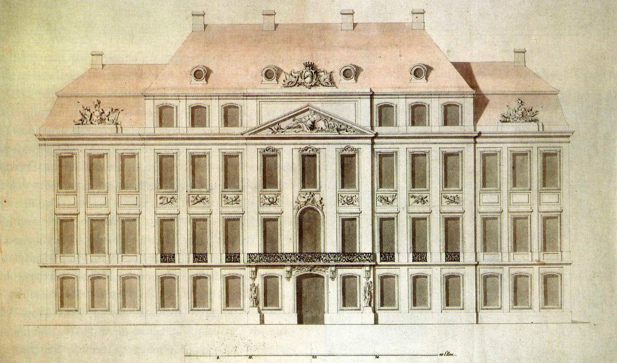 Palais Brühl